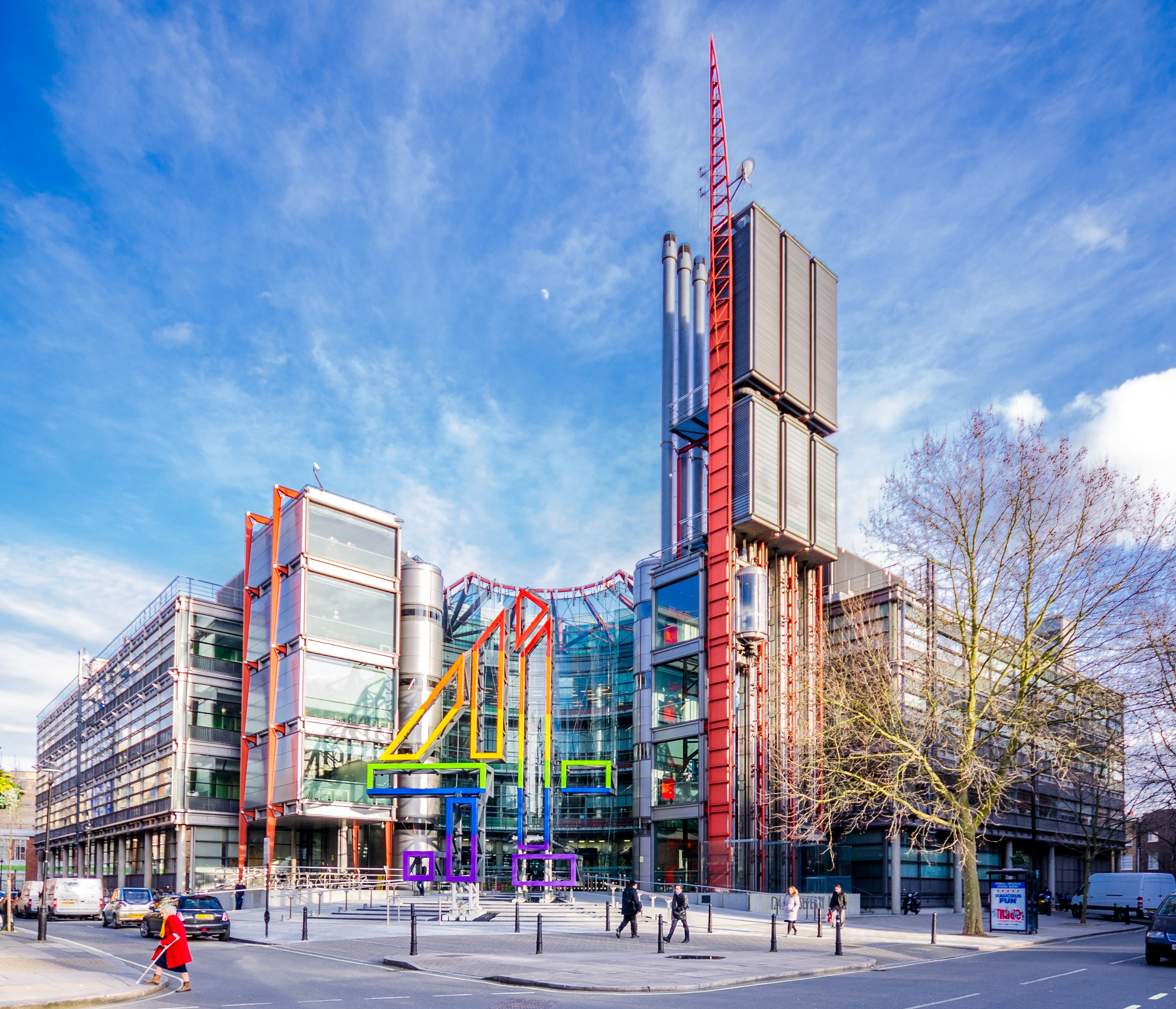 Cropped image of 124 Horseferry Road, London